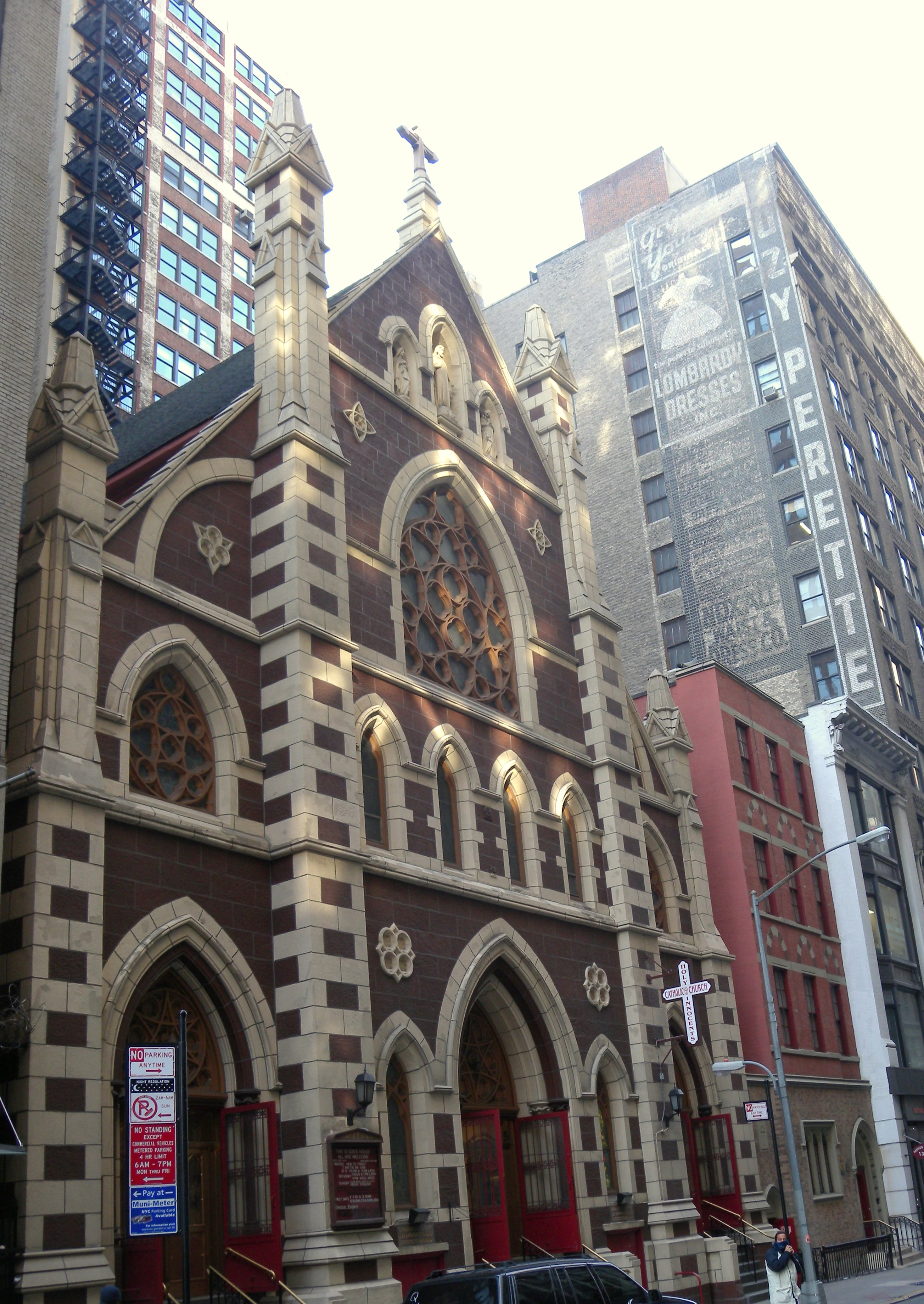 Looking west across 37th Street at Holy Innocents RC Church on a sunny late morning. ZIP 10018.